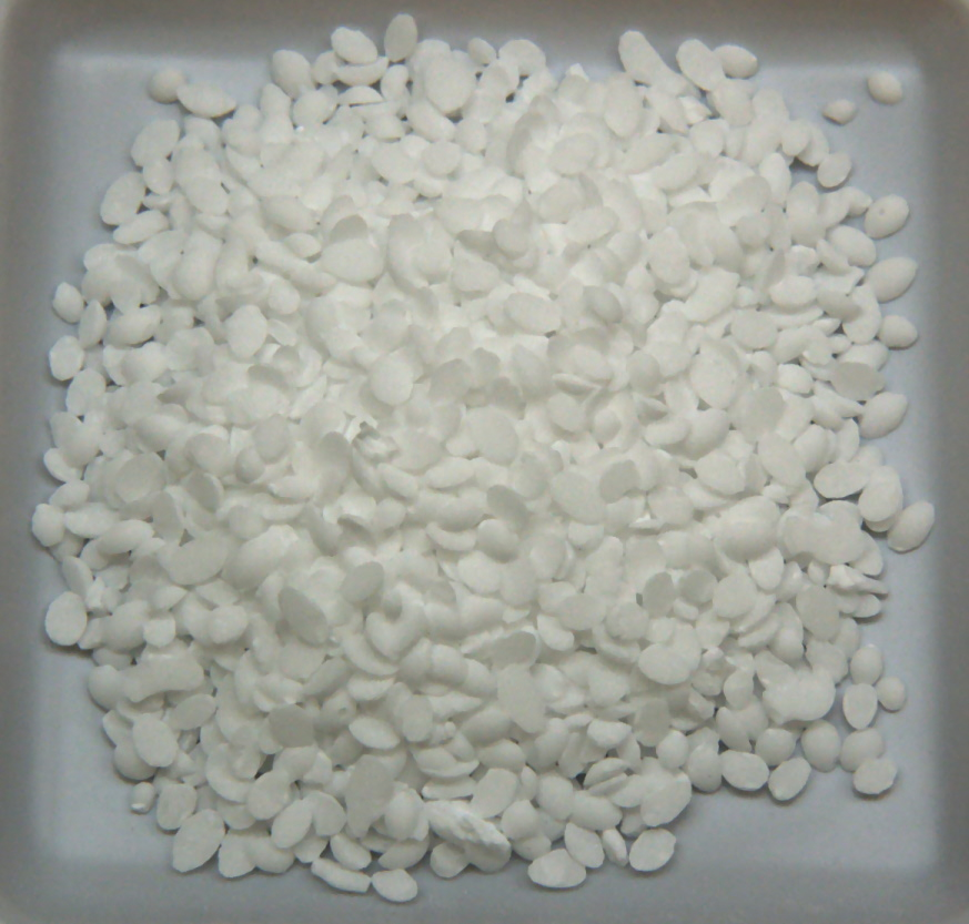 Triglycidylisocyanurat, curing agent for powder coatings